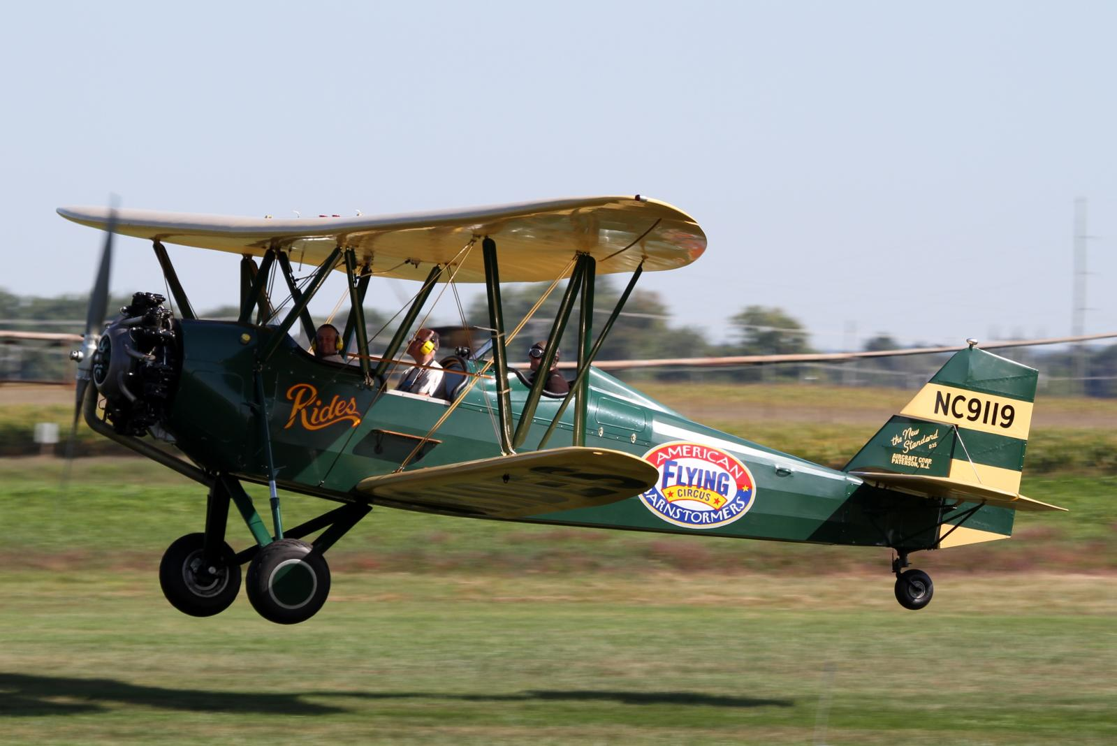 New Standard D-25 C/N 143; Midwest Antique Airplane Club’s annual Grassroots fly-in at Brodhead Wisconsin, 2011